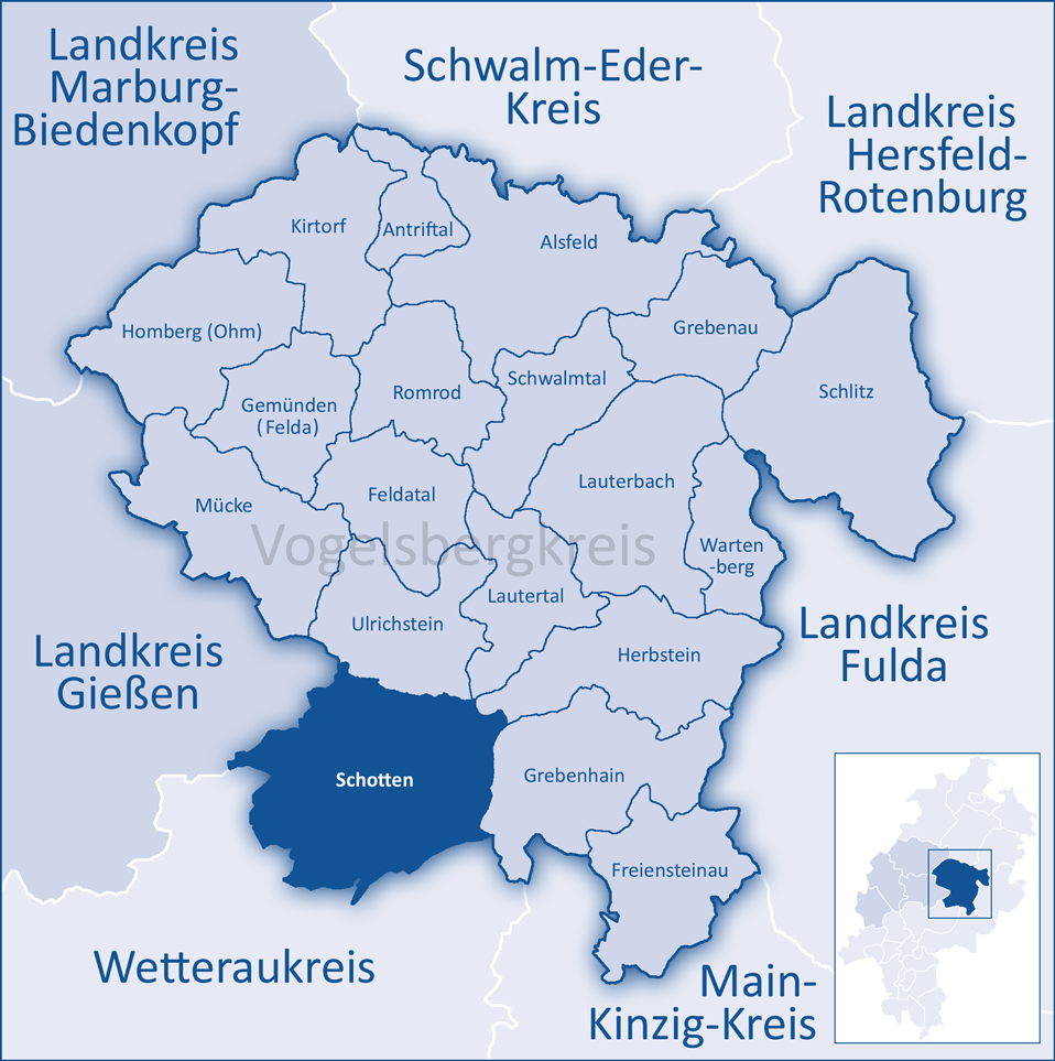 The map shows a district in the area of Vogelsbergkreis